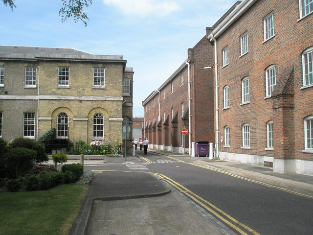 Looking from Admiralty House towards South Terrace